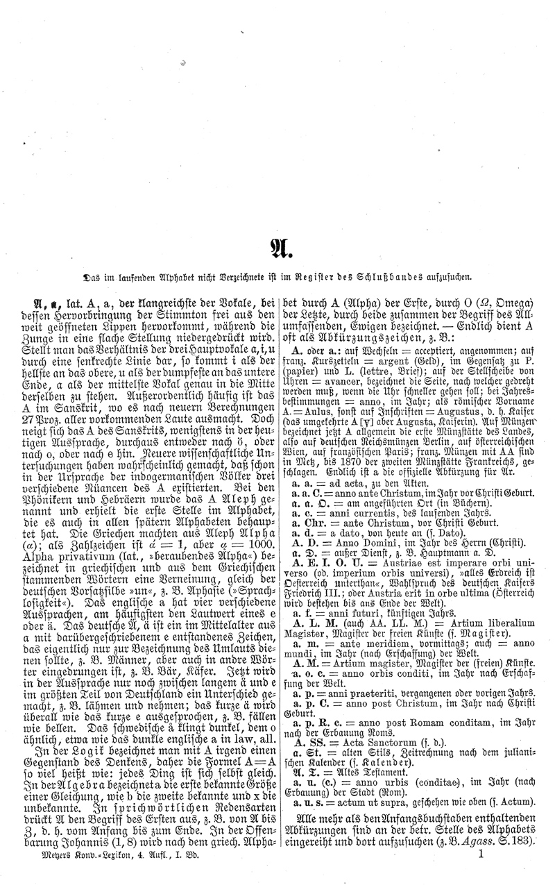 This is the start ("A"), page 1 of 1024, in Volume 1 of the German illustrated encyclopedia Meyers Konversationslexikon, 4th edition (1885-1890), fraktur font, with "A - Atlantiden".